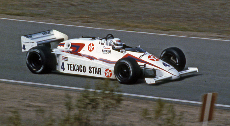 Tom Sneva drove a March 84C-Cosworth to a tenth-place finish at the 1984 Laguna Seca CART IndyCar race.